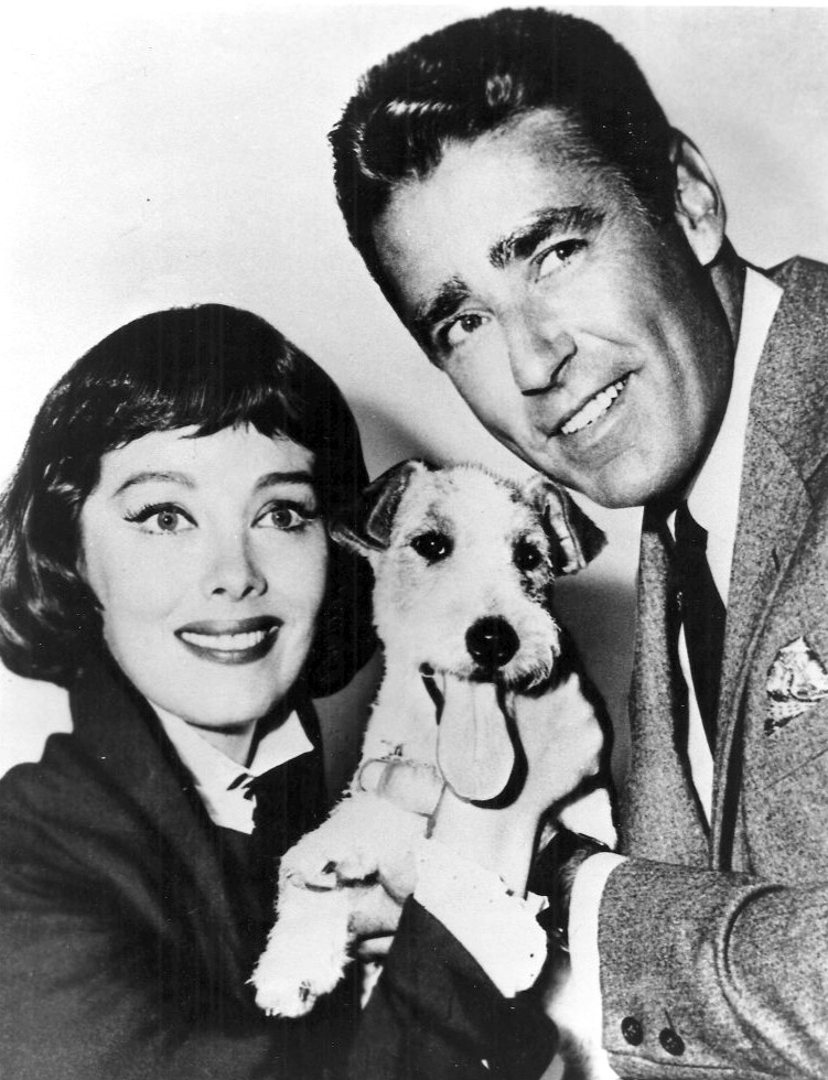 Photo of Phillis Kirk and Peter Lawford as Nick and Nora Charles with Asta from the television series, The Thin Man.